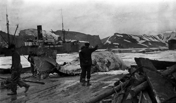 Flensing at A/S Hektor's whaling station in Deception Island. The factory ship Hektoria (I), ex. Inchmaree, in the background